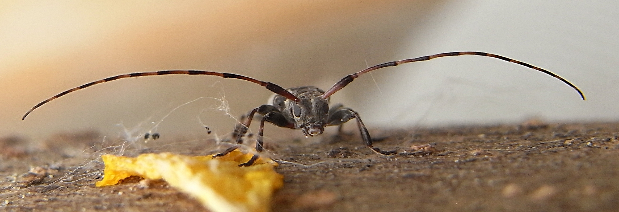 Front of Leiopus nebulosus Ricoh R8